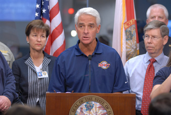 Governor Charlie Crist addressing the media at the State Emergency Operations Center during a Tropical Storm Fay briefing - Tallahassee, Florida. L-R: Chief Financial Officer Adelaide "Alex" Sink, Governor Charlie Crist, Attorney General Bill McCollum and in the background is Secretary of State Kurt Browning.